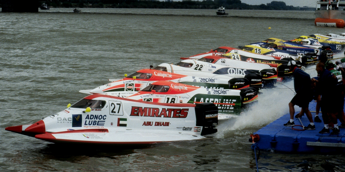 Start of Formula 1 Powerboat Racing